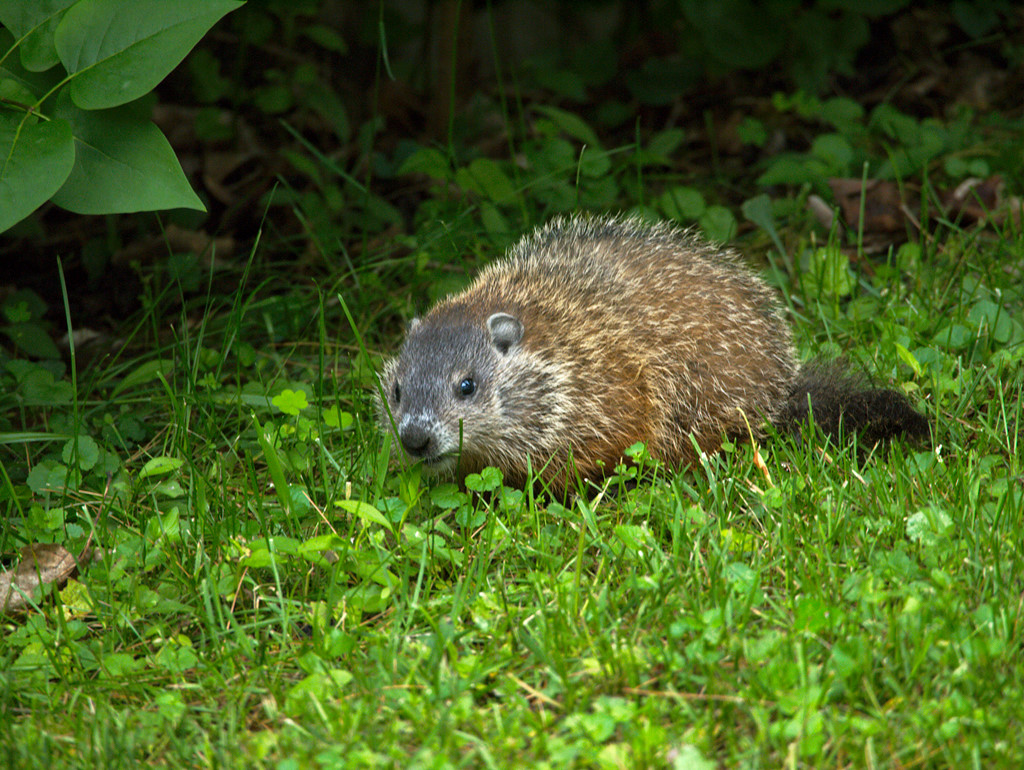 Woodchuck offspring in our yard